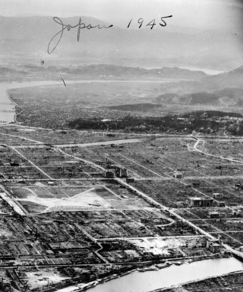 PictionID:38274822 - Catalog:AL-135B 271 - Filename:AL-135B 271.tif - This image is from a photo album donated to the Museum by JL Highfill-----------PLEASE TAG this image with any information you know about it, so that we can permanently store this data with the original image file in our Digital Asset Management System.-----------------SOURCE INSTITUTION: San Diego Air and Space Museum Archive